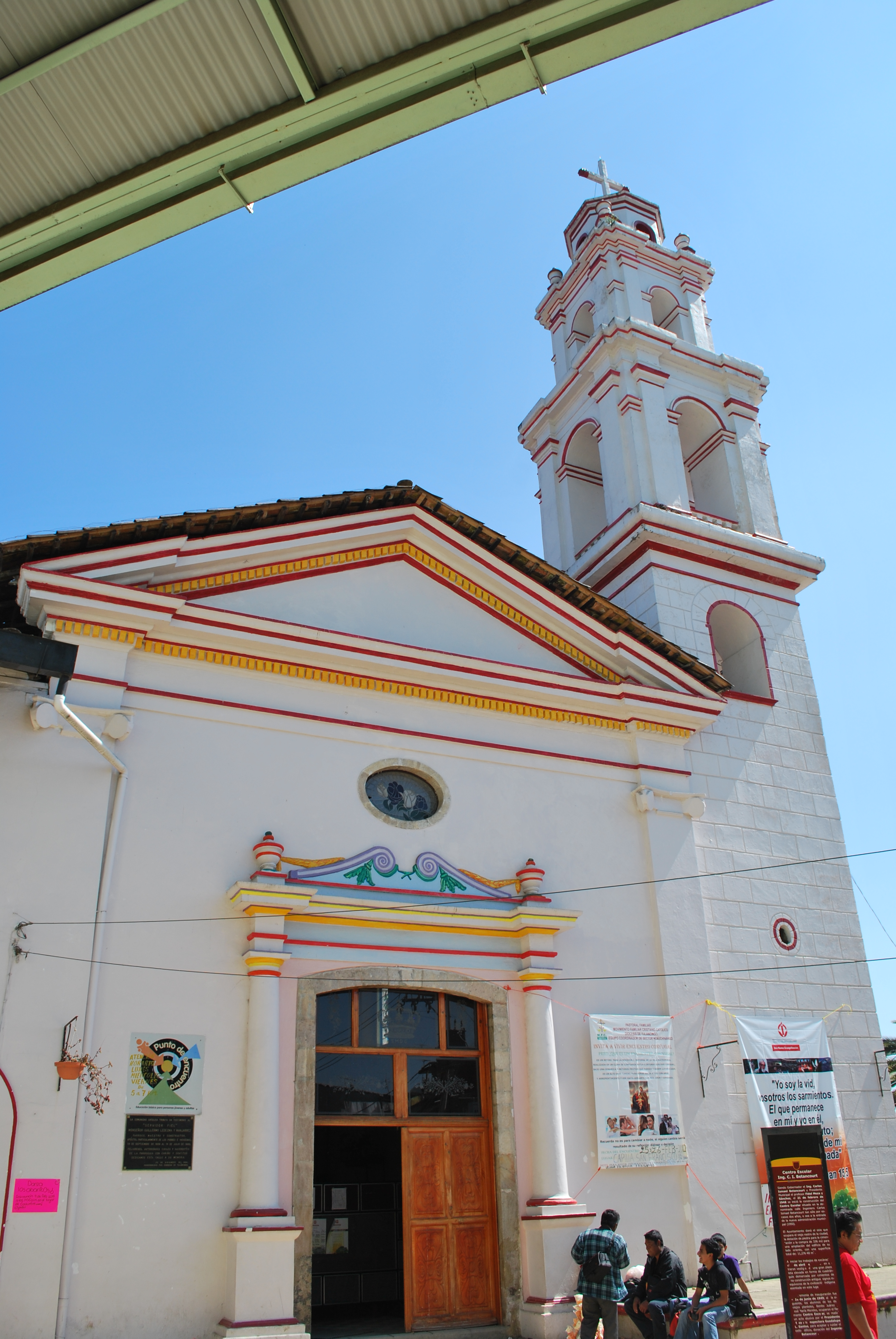 View of the facade of the Guadalupe Chapel in Huauchinango, Puebla, Mexico